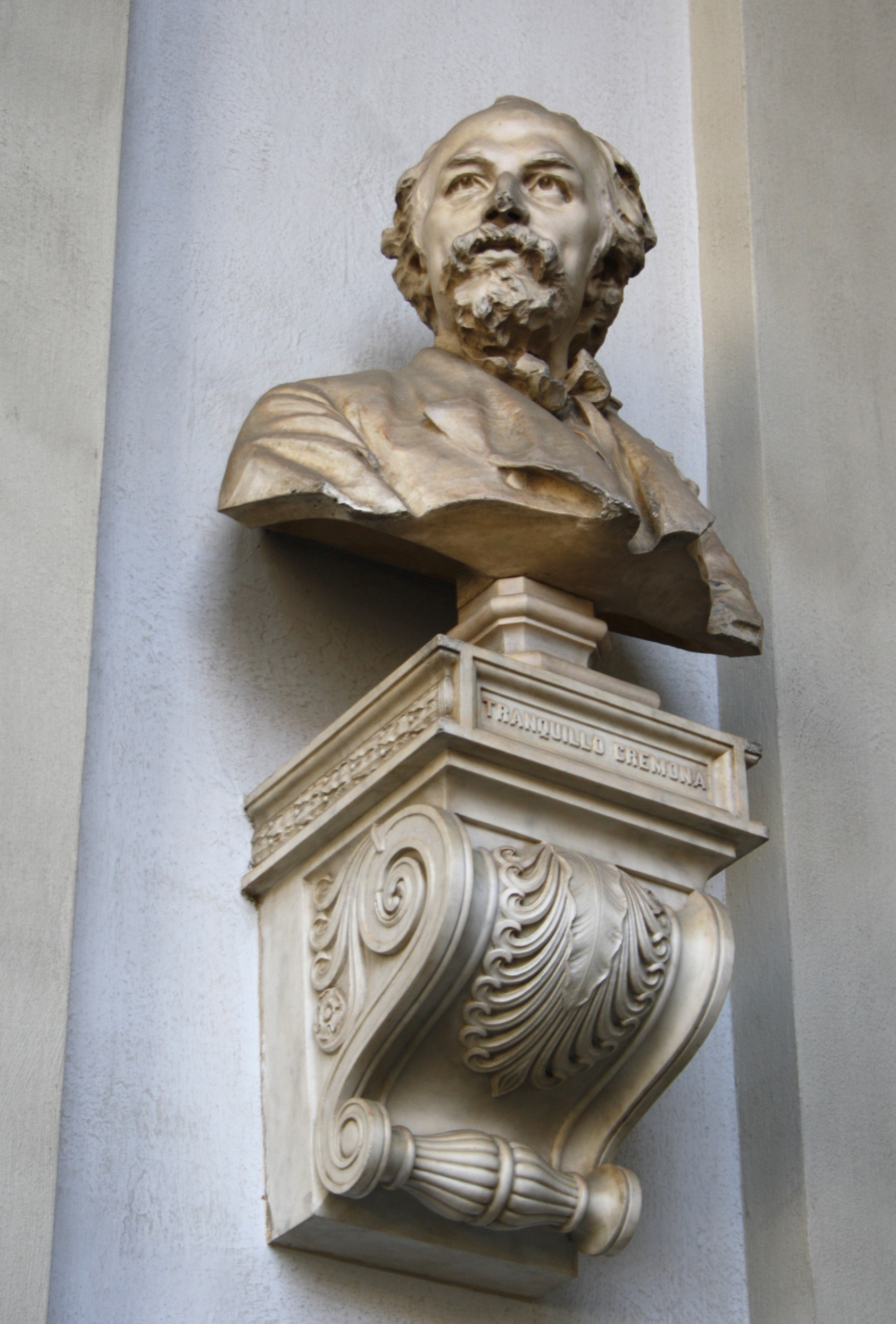 Bust of Tranquillo Cremona in the loggia on the first floor of the Palace of Brera in Milan. It was sculpted by Renato Peduzzi in 1888. Photograph by Giovanni Dall'Orto, October 1 2011.